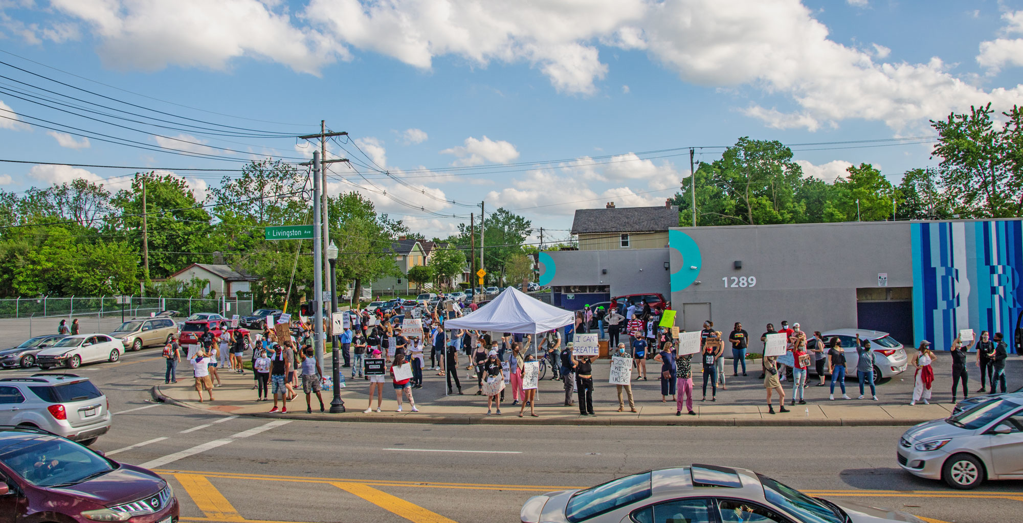 George Floyd protest, 2020-05-28, Columbus, Ohio.